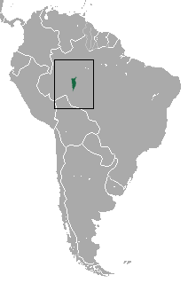 Stephen Nash's Titi (Callicebus stephennashi) range